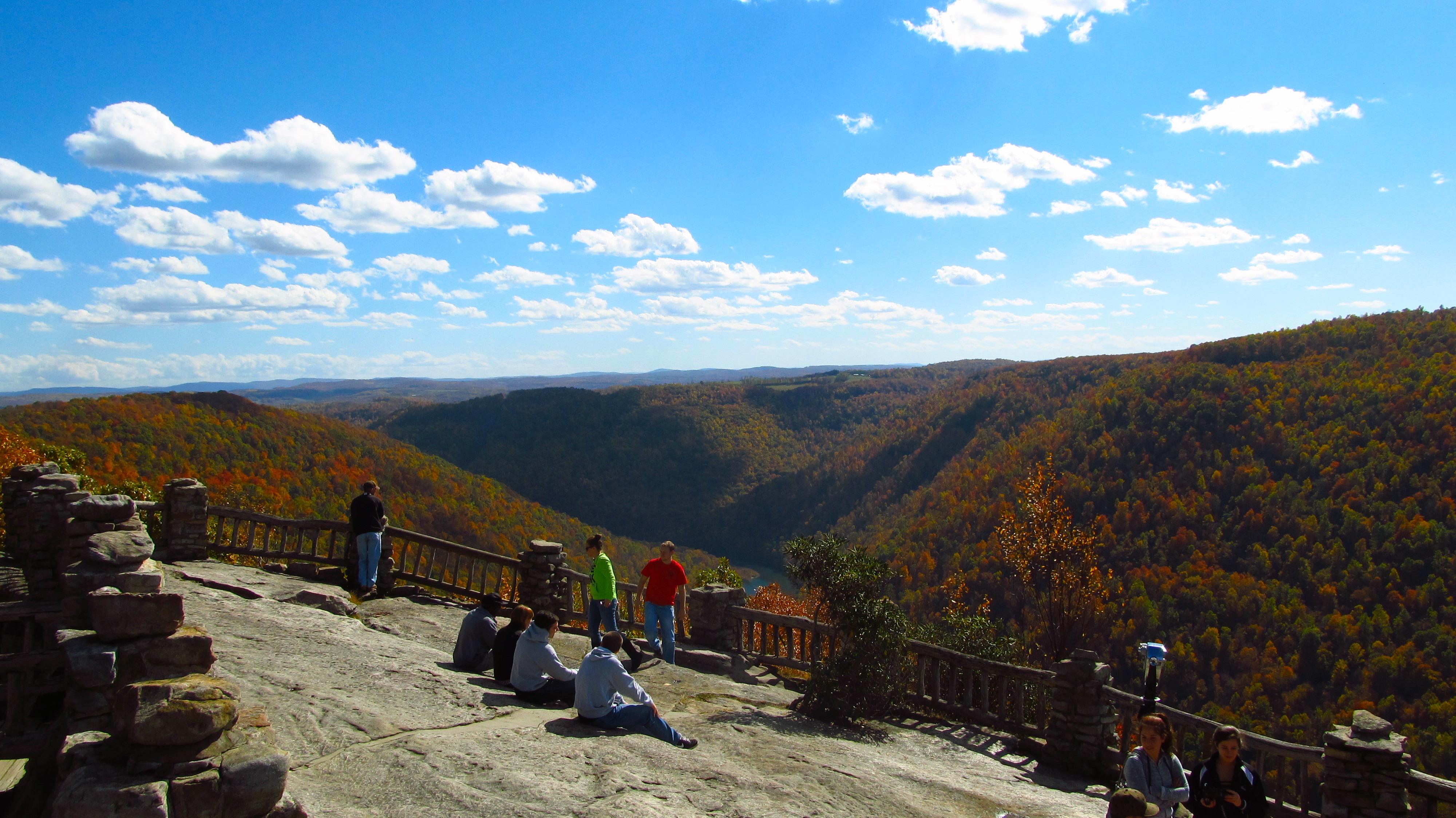 Main overlook at Coopers Rock State Forest, West Virginia. October 19th, 2012.